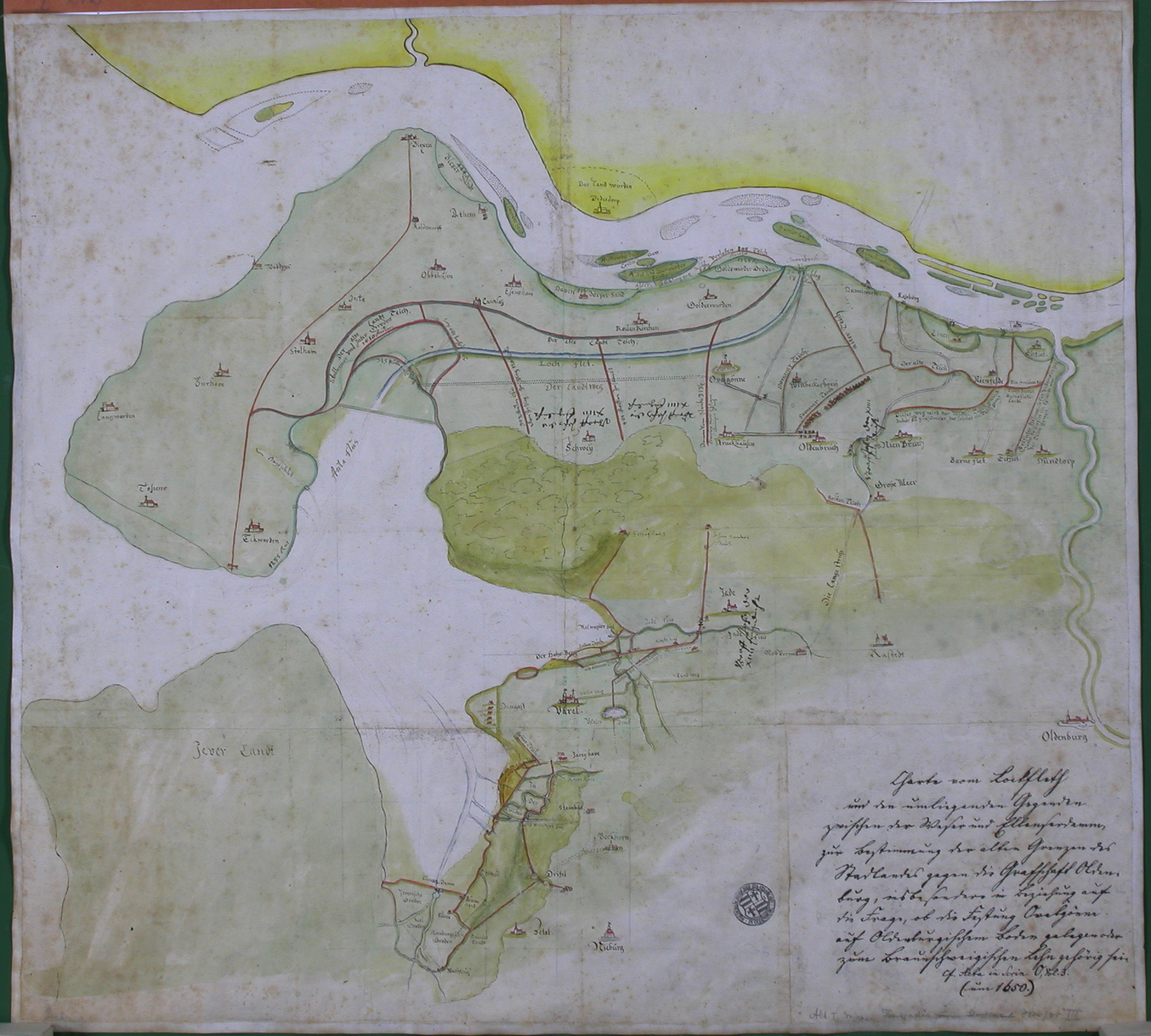 map of some of the dikes of the County of Oldenburg, drawn at about 1643–1645. Ordinary dikes on the coast and on the bank of Weser river are not marked, but recent losses of land are shown, All Islands in Jadebusen are omitted, including Oberahnesche Felder, which were measured almost at the same time, perhaps shortly afterwerds.